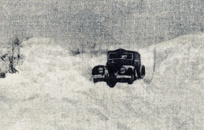 Entry #35 in the 1937 Rallye Monte Carlo was a 5,448 ccm Renault Nervasport CS entered by Charles Lahaye and René Quatresous. They ended in 6th position overall.[1] As indicated in the french description, this Renault was probably a Renault Nervasport, with its largest engine option. The drivers had entered a Nervasport Coupe Speciale (CS) in 1935, may have been a Nerva Grand Sport.